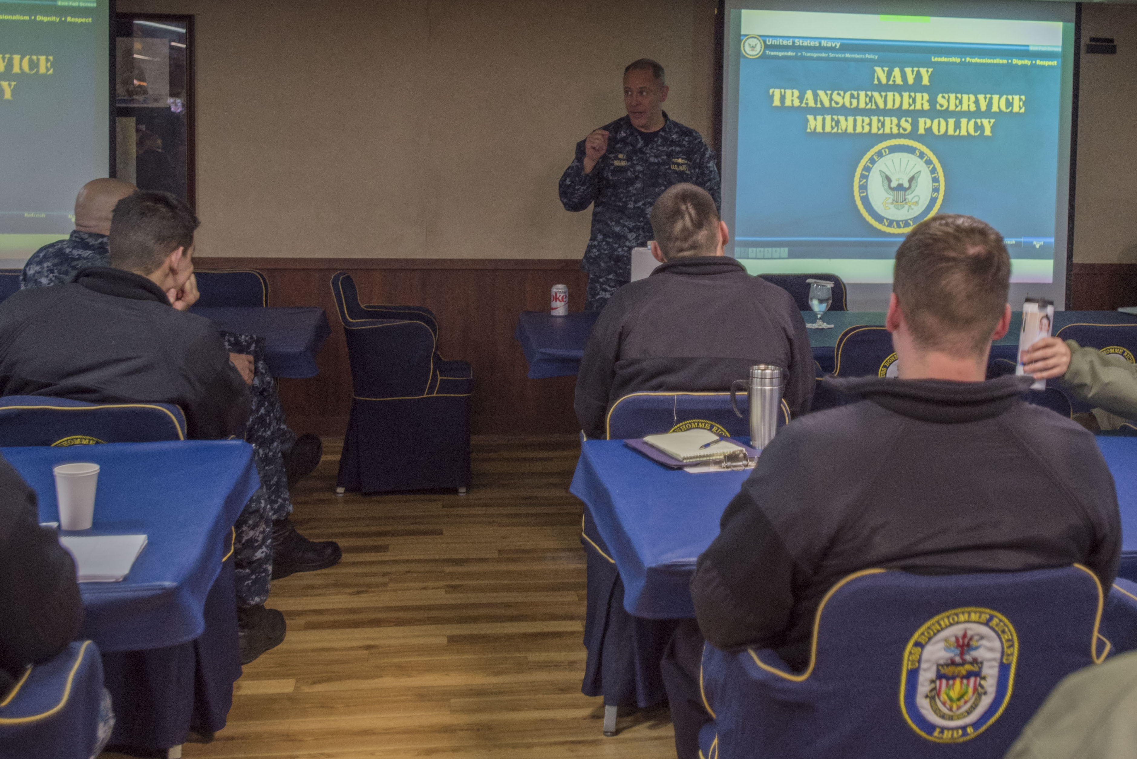 170125-N-NB544-006 SASEBO, Japan (Jan. 25, 2017) Capt. Jeffrey Ward, commanding officer of amphibious assault ship USS Bonhomme Richard (LHD 6), facilitates transgender training with chiefs and officers in the ship's wardroom. The training was conducted to provide command leadership guidance on transgender policy in accordance with Department of Defense (DoD) and Secretary of the Navy (SECNAV) instructions. Bonhomme Richard, forward-deployed to Sasebo, Japan, is serving forward to provide a rapid-response capability in the event of a regional contingency or natural disaster. (U.S. Navy Photo by Mass Communication Specialist 2nd Class Kyle Carlstrom/Released) Unit: Navy Media Content Services DVIDS Tags: Sasebo; commanding officer; LHD 6; USS Bonhomme Richard; training; ESG 7; LGBT; NMCS; Transgender; DVIDS Bulk Import; DVIDS Email Import